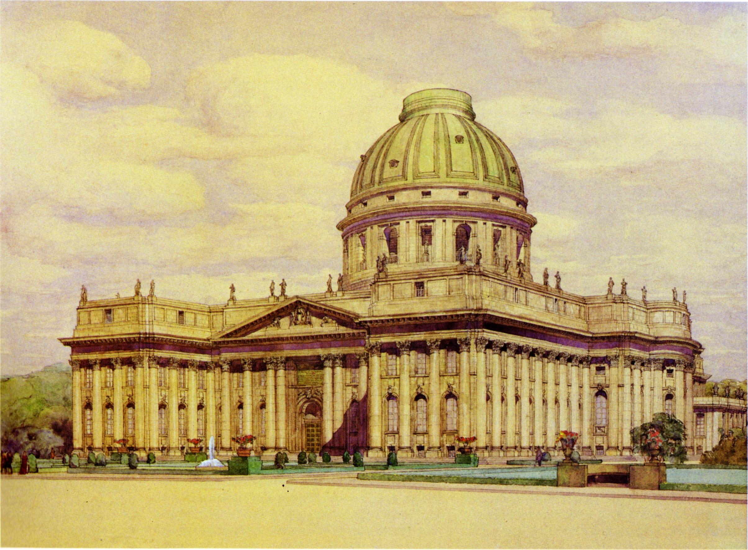 Competition design for the Peace Palace, The Hague.